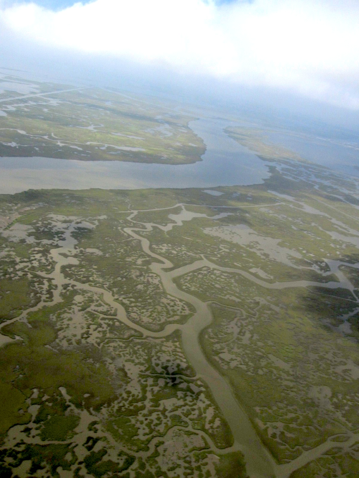 Port Fourchon Louisiana area, view taken by remote camera on baloon. Complete raw data available here: This work is dedicated to the Public Domain. [1] Due to restrictions of the Flickr licensing system, this work is marked with a Creative Commons Attribution License. Please disregard that license. You may feel free to attribute authorship to me, though. Also, please consider letting Flickr know that the community would like Public Domain as an automatic licensing option.